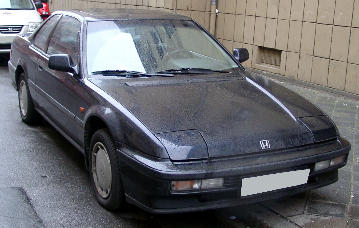 Honda Prelude, 3. Generation